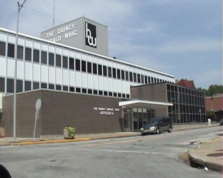 The Corporate Headquarters of Quincy Newspapers INC in Downtown Quincy. I took the picture in summer of 2007 with my video camera.